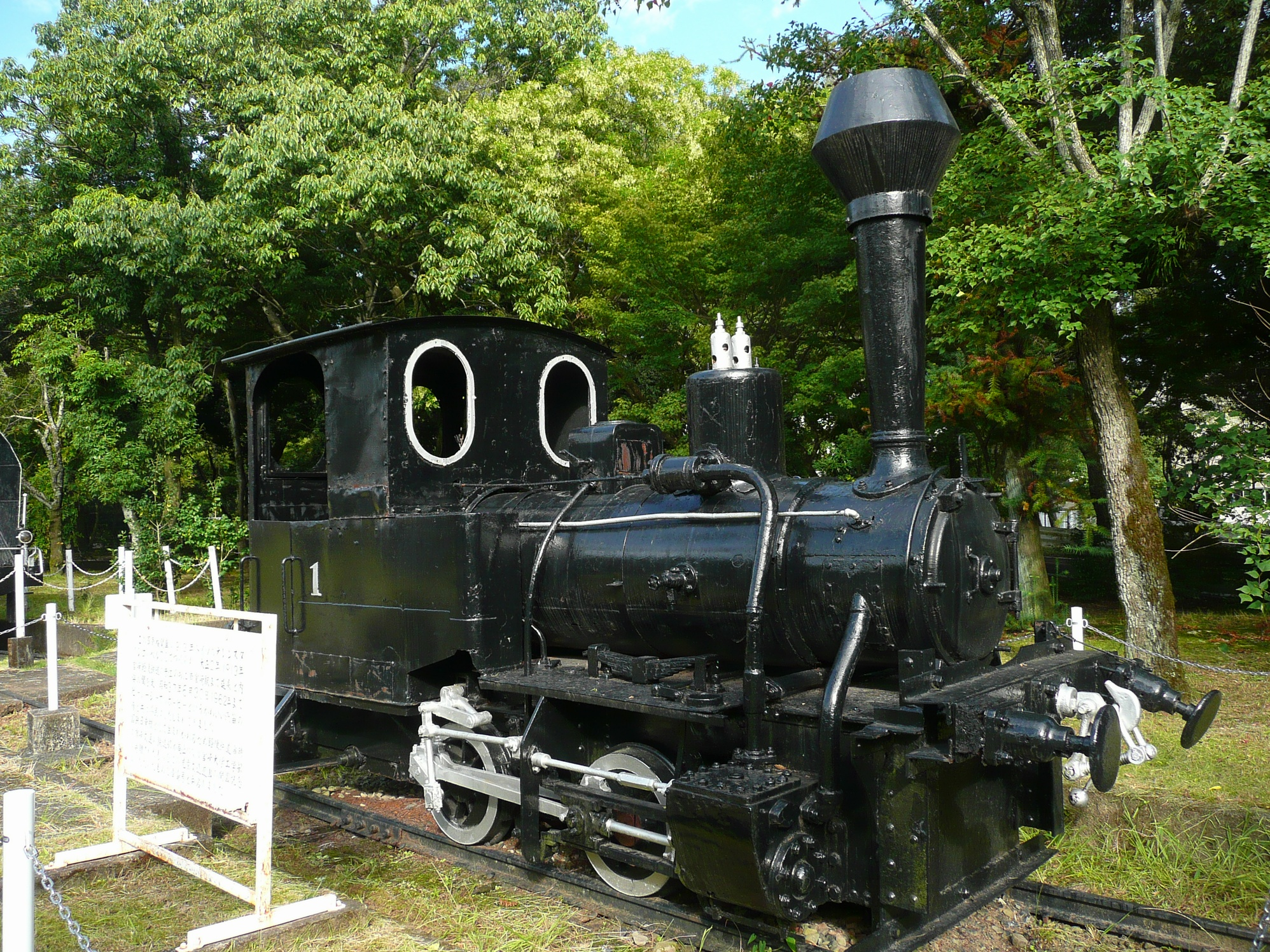 Miyazaki Kotsu Railway SL No.1(1913-1962, Present JR kyushu Nichinan Line)